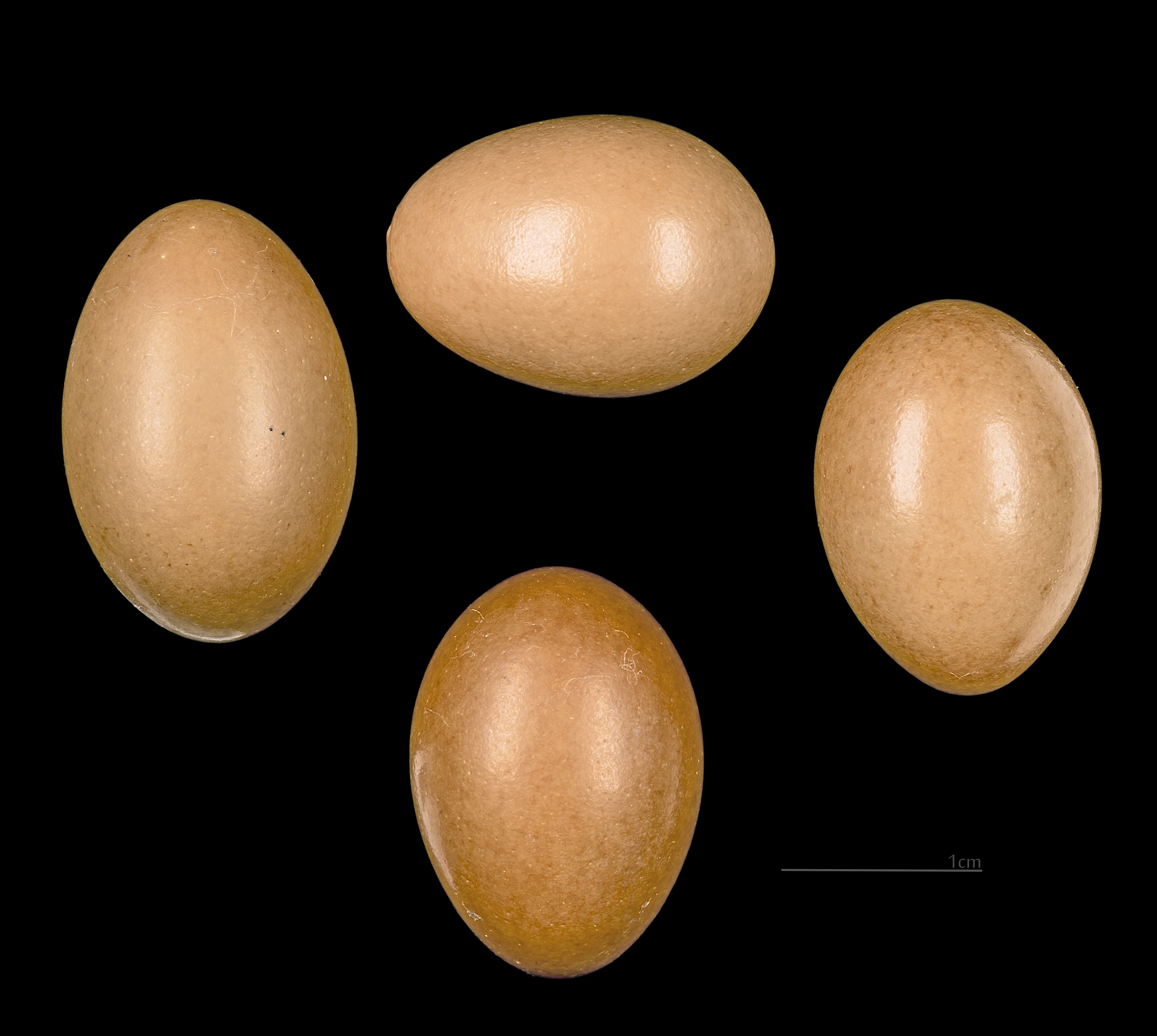 Egg of Black-headed Weaver. Collection of René de Naurois /Jacques Perrin de Brichambaut.